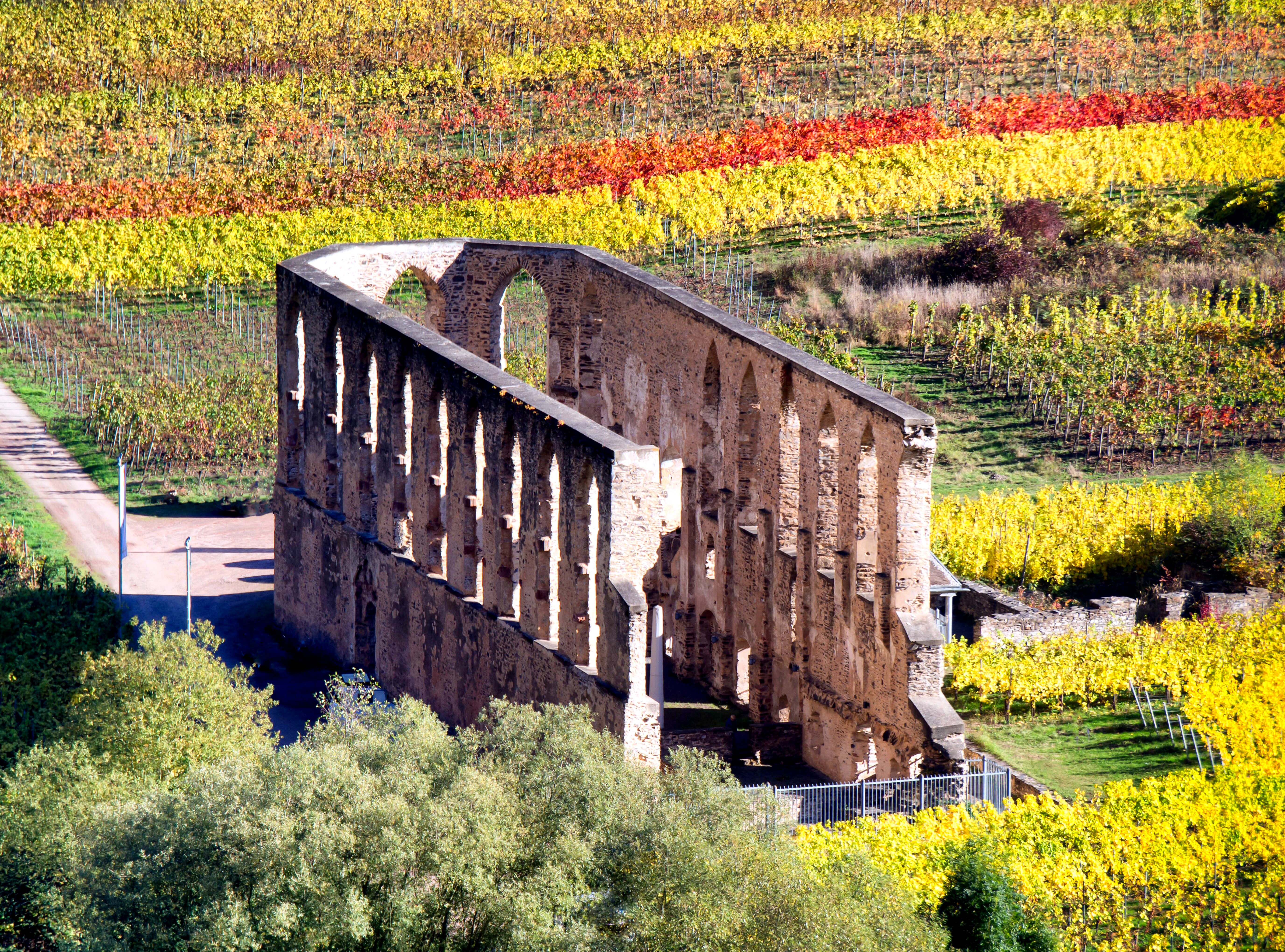 Kloster Stuben in Rhineland-Palatinate